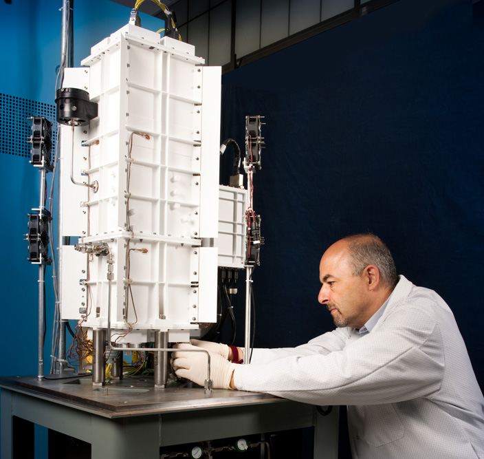 Engineering test unit for the Advanced Stirling Radioisotope Generator.